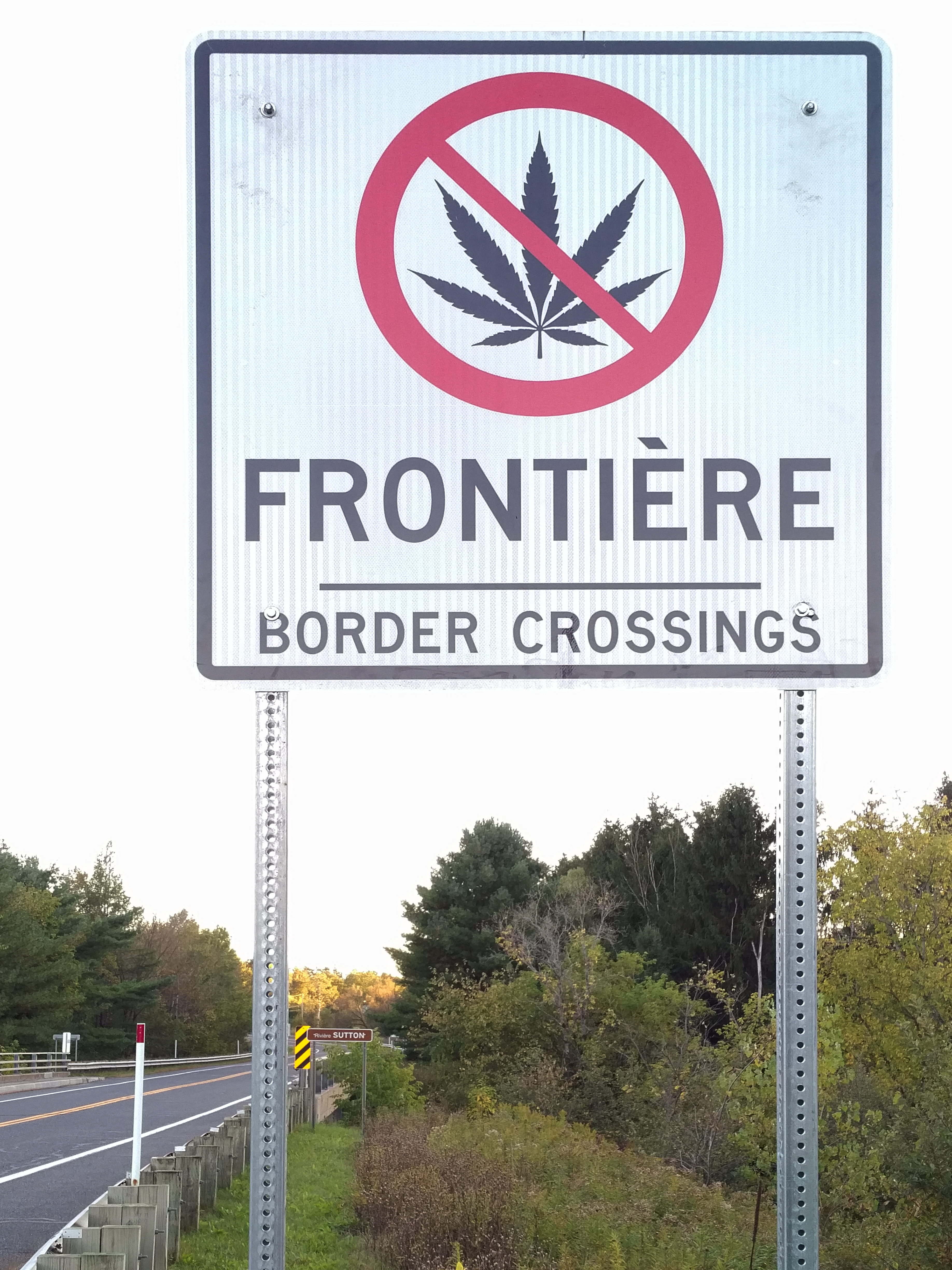 Road sign at the Canada-U.S. border prohibiting cannabis, Abercorn (near Sutton), Québec.